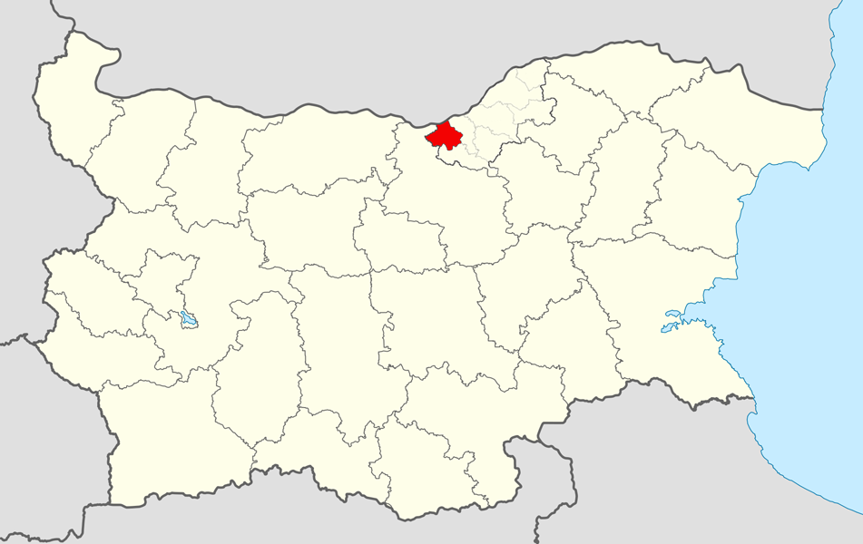 Location map of Tsenovo Municipality within Bulgaria and Ruse Province. Equirectangular projection, N/S stretching 130 %. Geographic limits of the map: N: 44.4° N S: 41.1° N W: 22.1° E E: 28.9° E